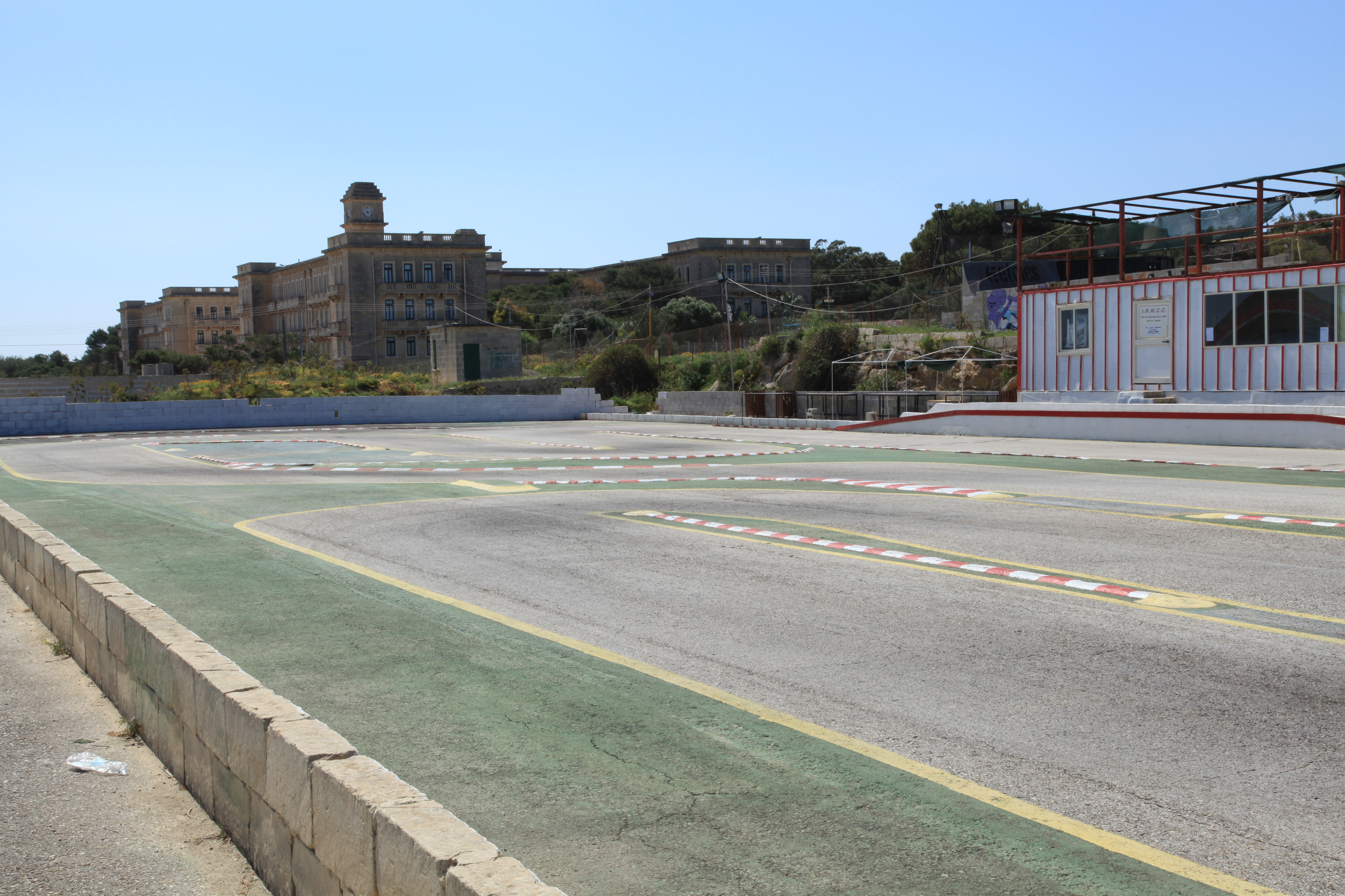 Triq Martin Luther King and the St Clare College in Pembroke, Malta